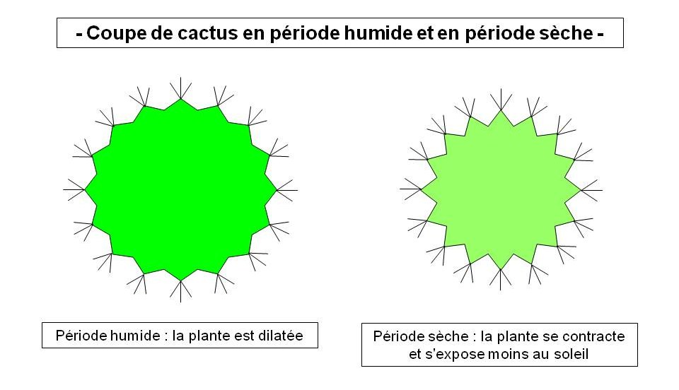 Cross section of cactaceae in wet period and dry period. It shows that during a dry period, a cactus contracts. The areols, more contracted, are least likely to sunlight.